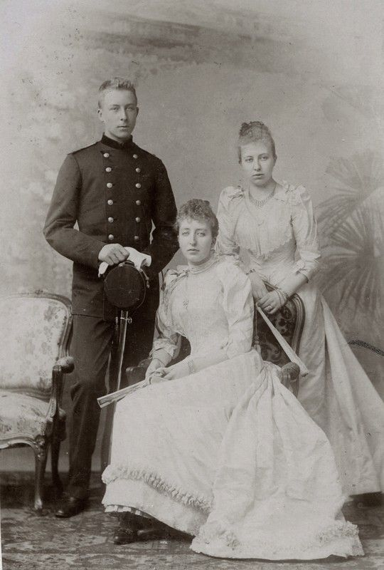 Prince Albert (future King Albert I of Belgium) and sisters, Henriette (sitting) (later Duchess of Vendôme) and Josephine (Later Princess of Hohenzollern-Sigmaringen)